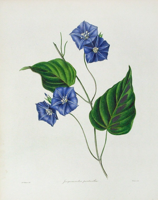 Jacquemontia pentanthos (Jacq.) G. Don